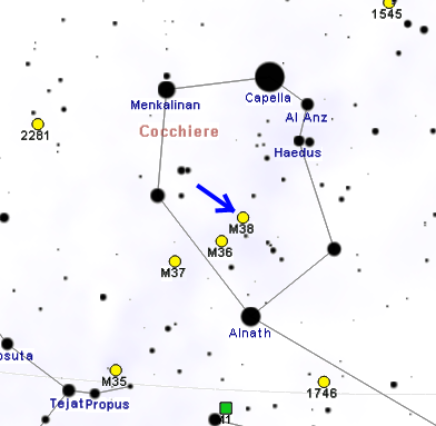 M38 map